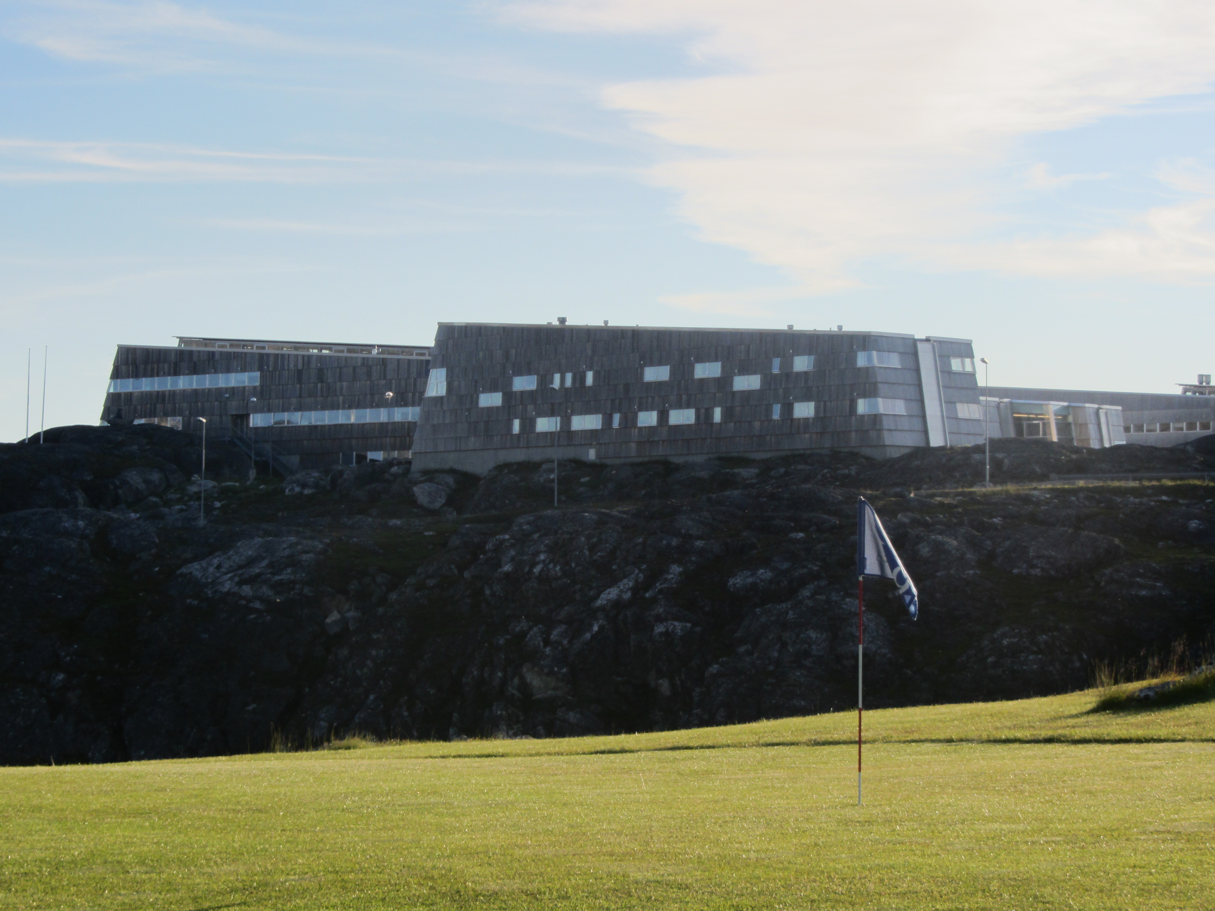 Golf Nuuk